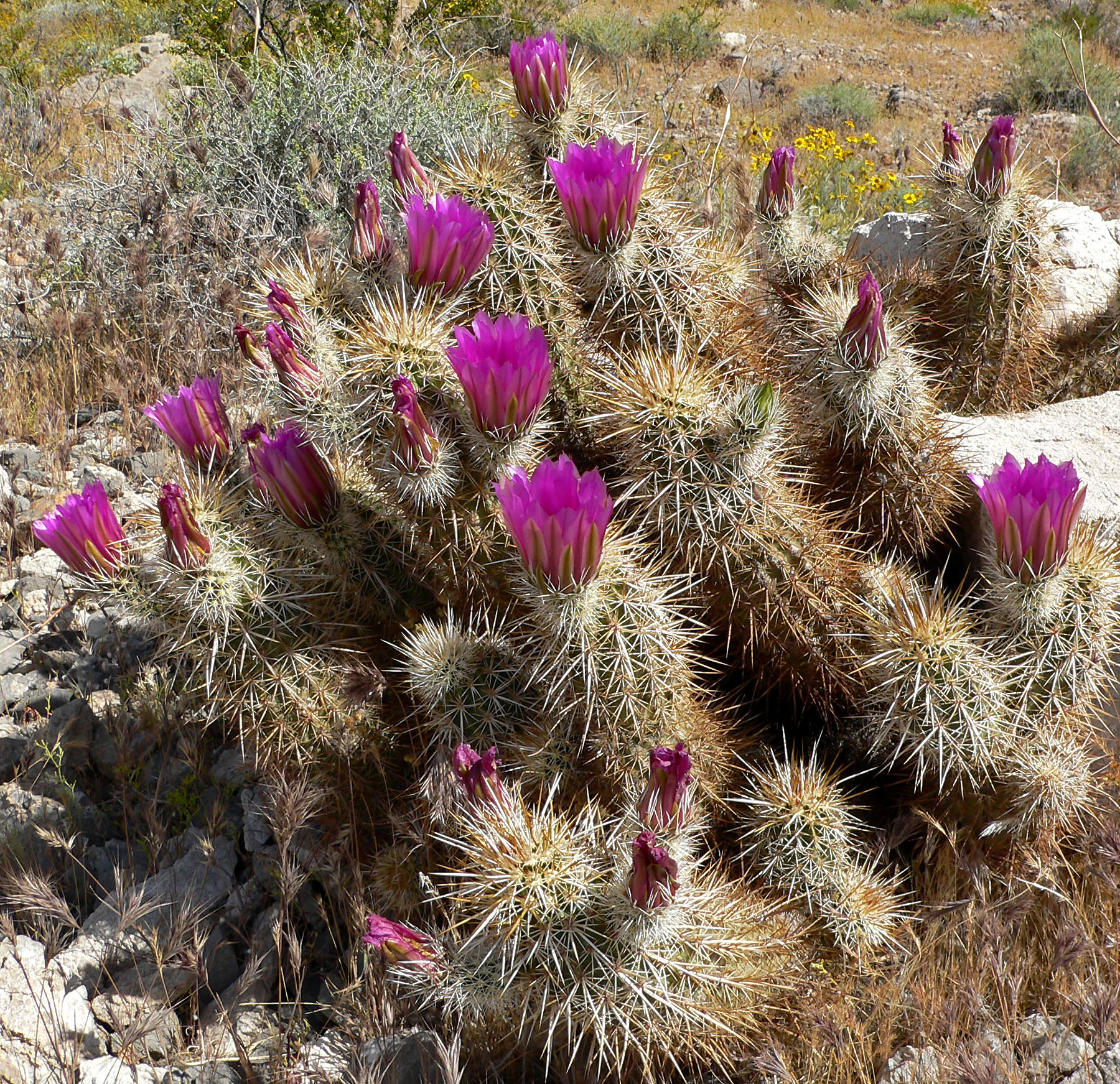 Photo of Echinocereus engelmannii in the desert at the west end of Cheyenne Ave, Las Vegas, Nevada (Lone Mountain area)